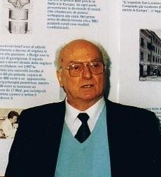 Il fisico Ernesto Casnati davanti a una poster section a Borgo Valsugana. Non in foto, sono presenti anche Claudio Valdagni e Aldo Valentini.